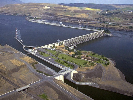 From